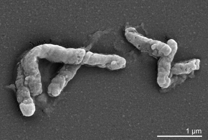 Scanning electron micrograph of A. ferrooxidans ICPT